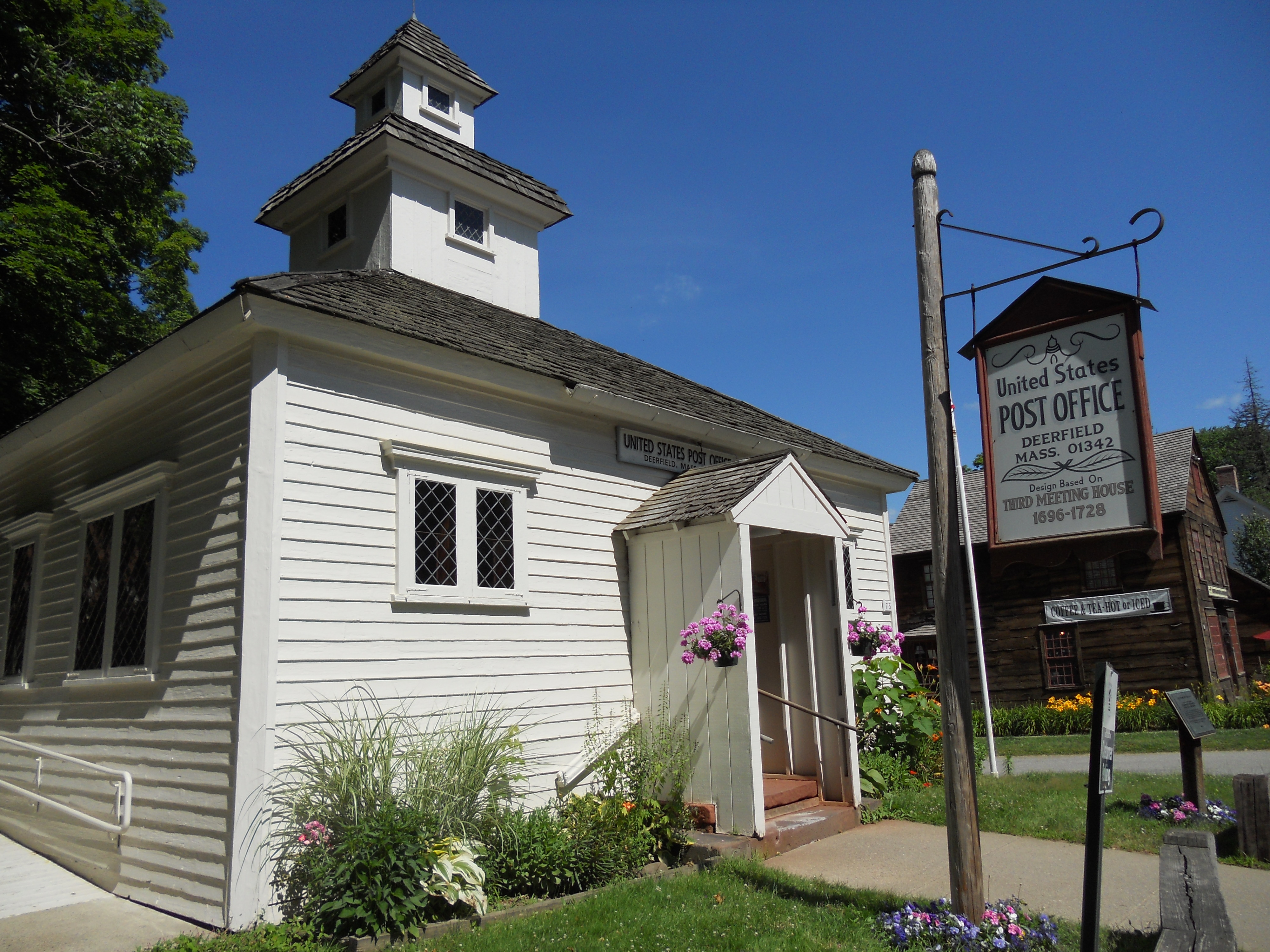 United States Post Office, Deerfield, Massachusetts, zip code 01342, United States